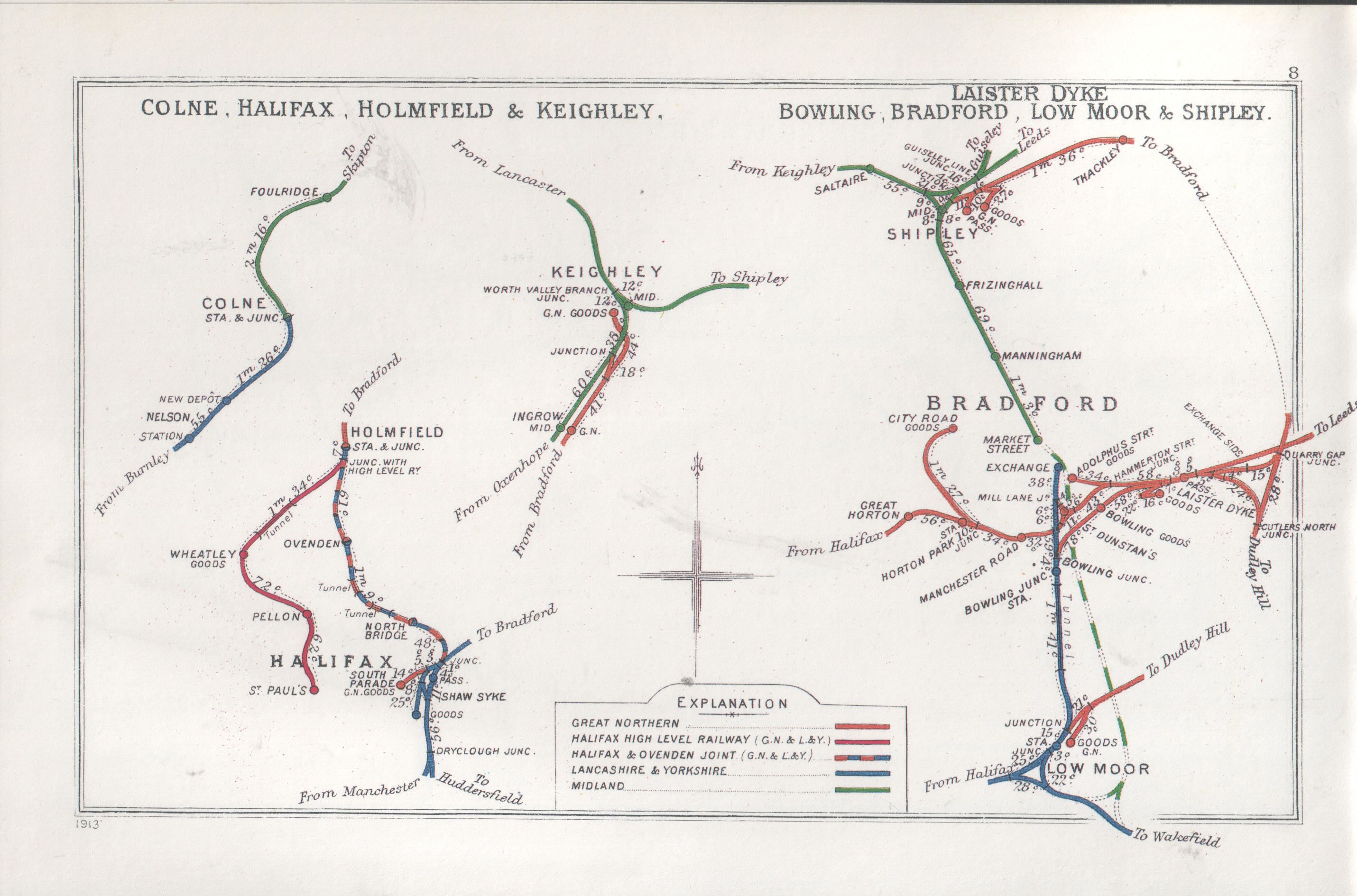 Pre Grouping railway junction around Colne, Halifax, Holmfield & Keighley Laister Dyke, Bowling, Bradford, Low Moor & Shipley